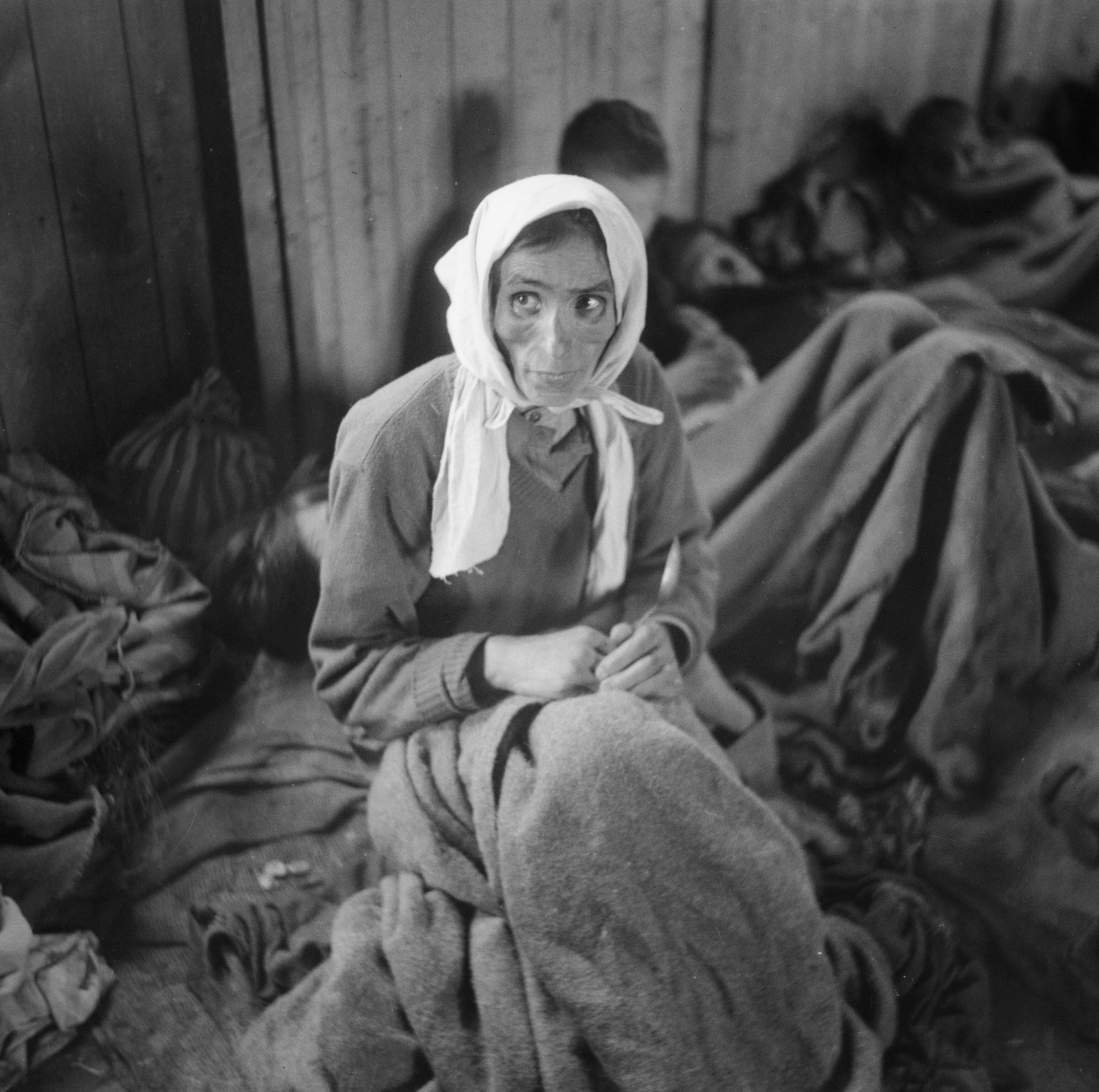 The Liberation of Bergen-belsen Concentration Camp, April 1945 A woman inmate suffering from typhus in one of the camp huts.